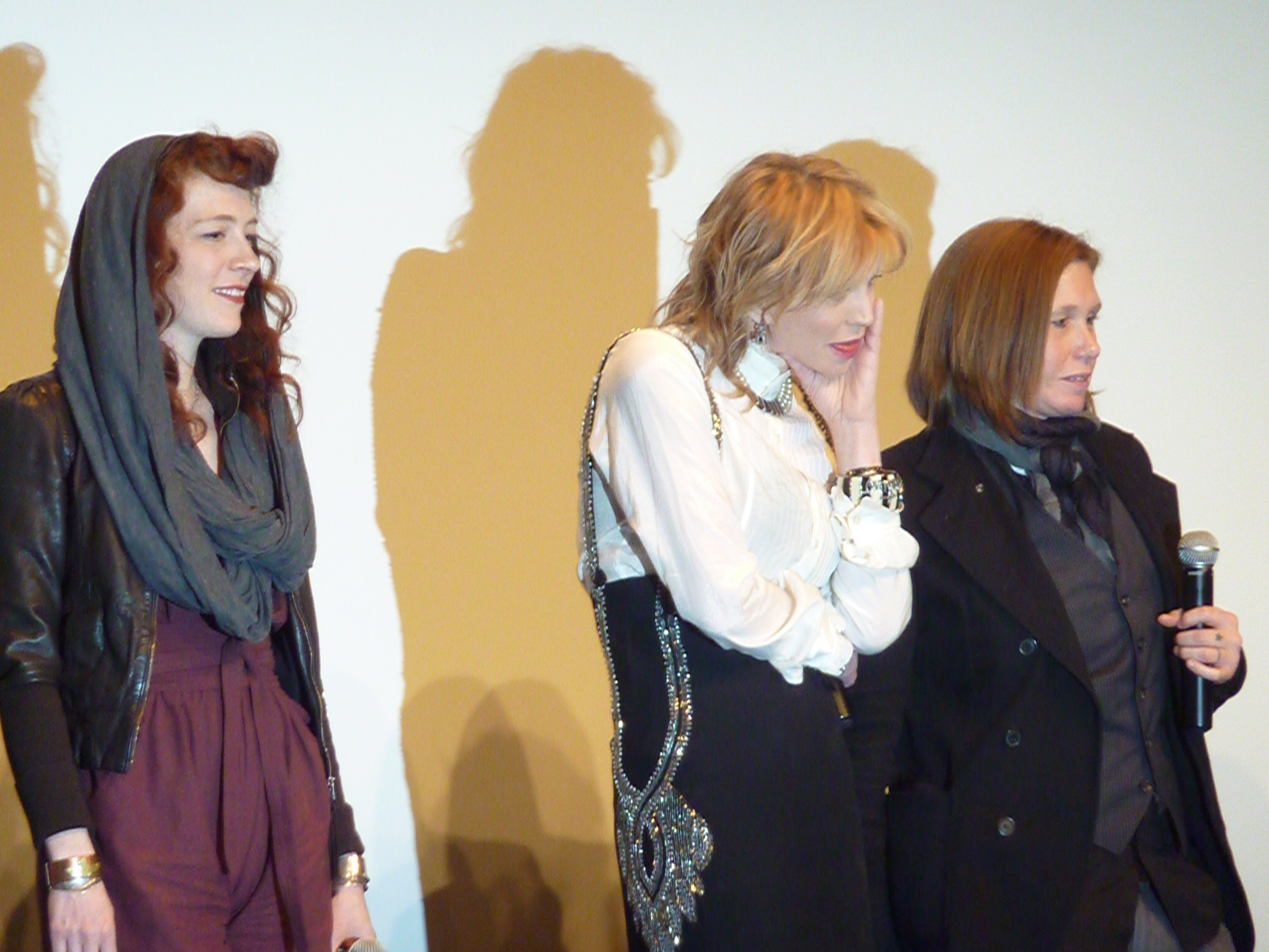 Melissa Auf der Maur, Courtney Love, and Patty Schemel at a screening of Hit So Hard: The Life and Near Death of Patty Schemel at the Museum of Modern Art in New York City, 2011.